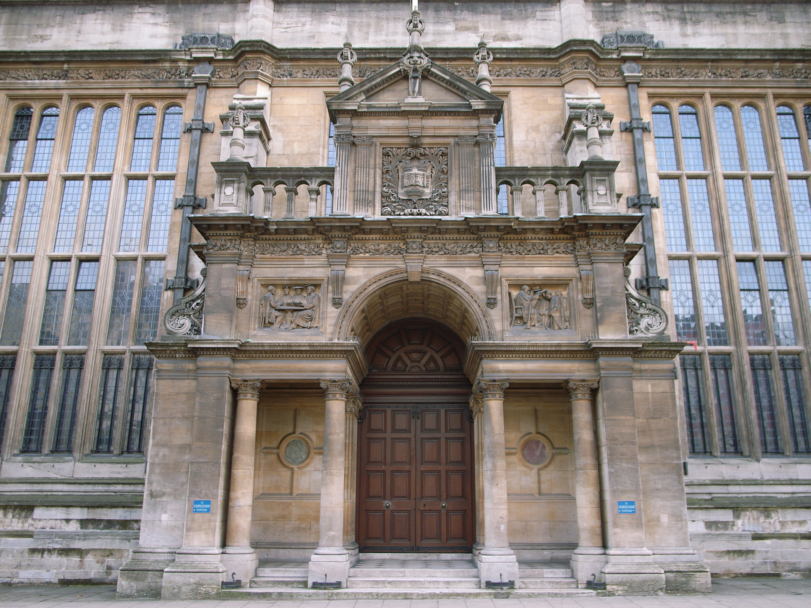 The porch of the Examination Schools in High Street, Oxford, seen from the north